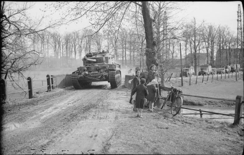 The British Army in North-west Europe 1944-45 A Comet tank of 11th Armoured Division rolls past German civilians during the advance to Osnabruck, 2-3 April 1945.